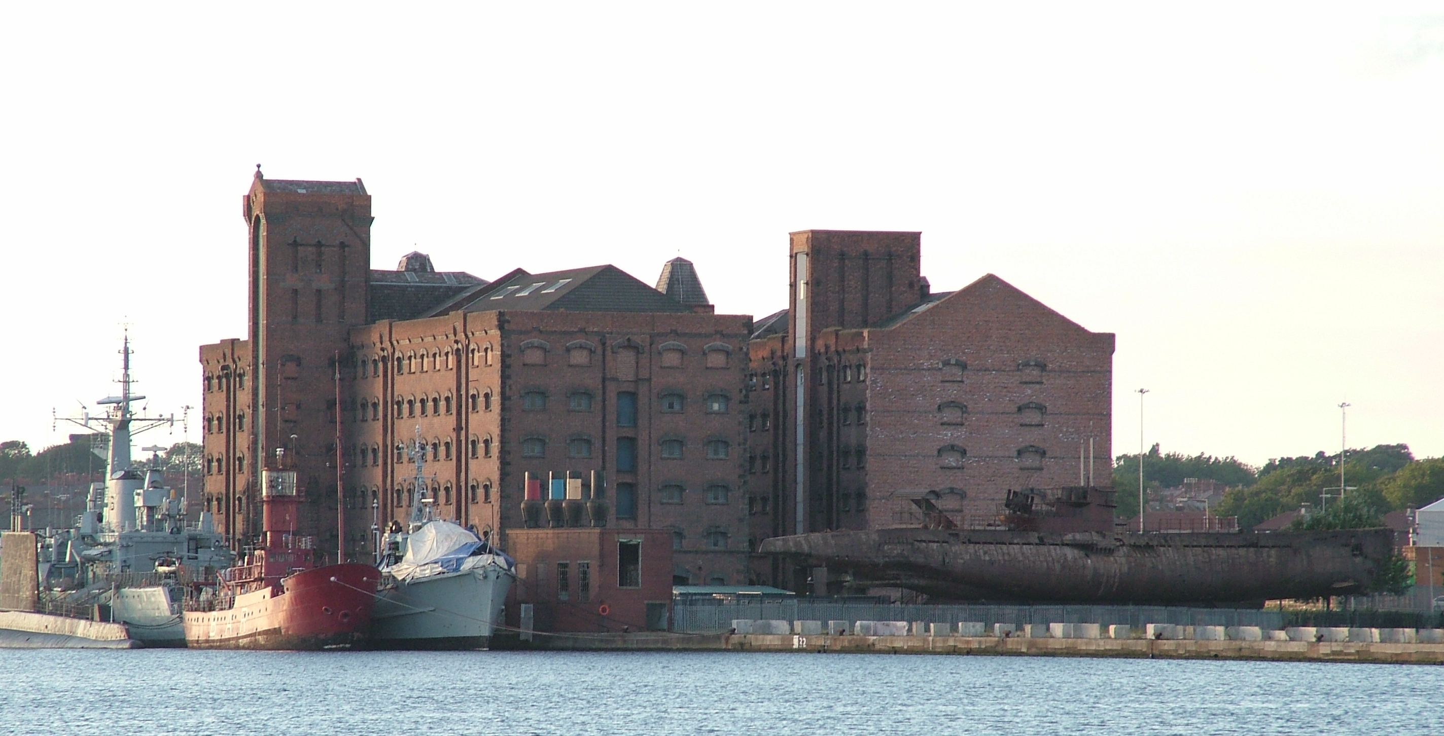 Nautilus Museum, Birkenhead